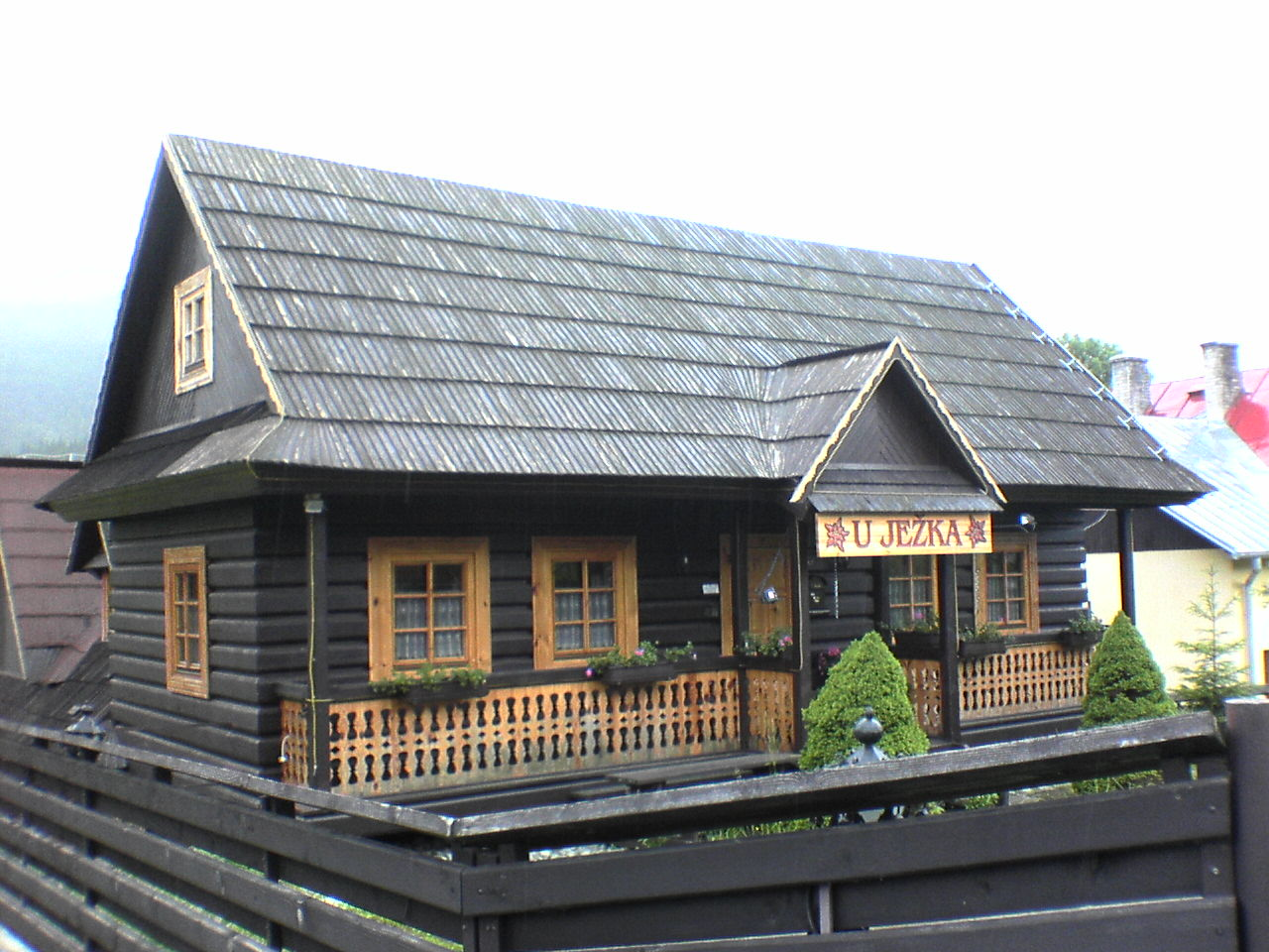 Another typical house in Ždiar